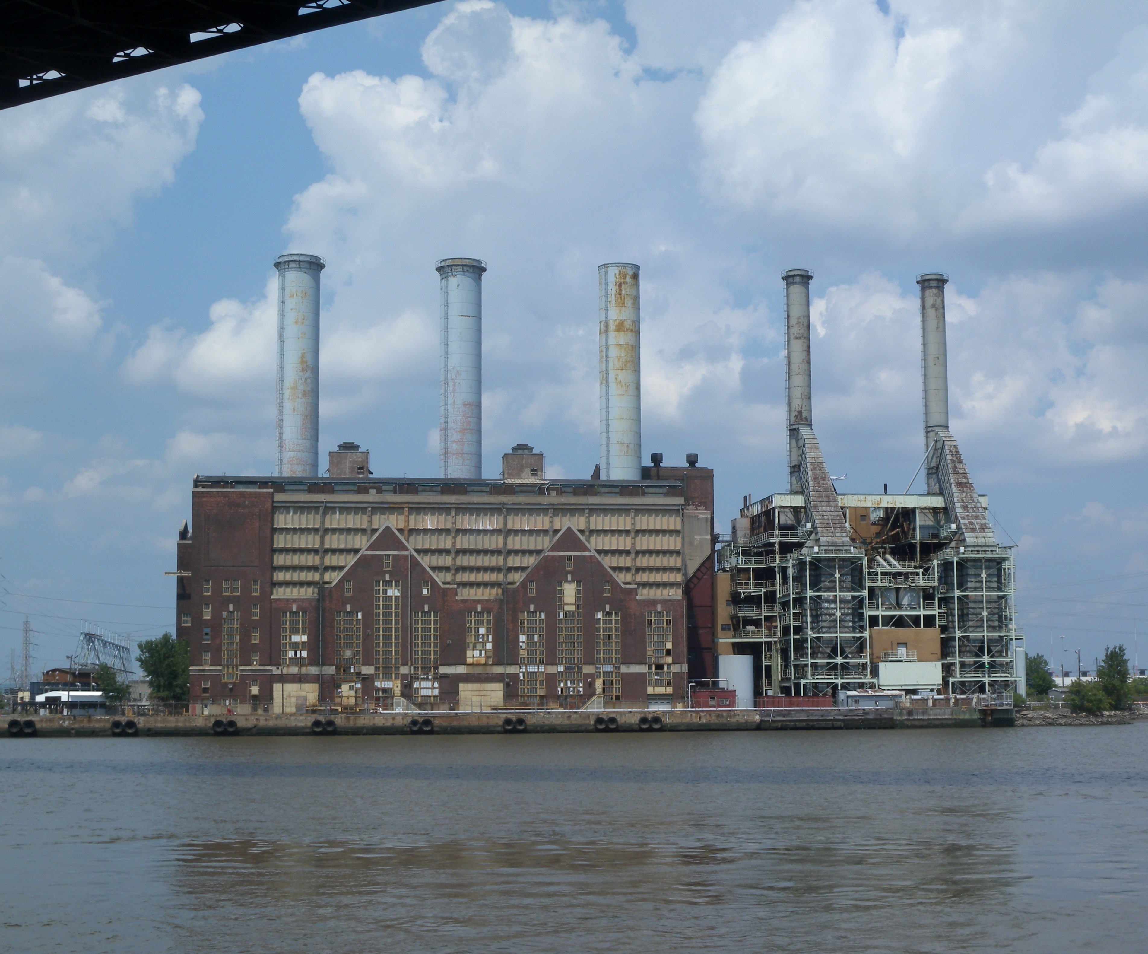 View of Kearny Generating Station, South Kearny, New Jersey. Looking northwest across Hackensack River from Duncan Avenue on a sunny midday. See also File:PSEG Kearny peak jeh.JPG.